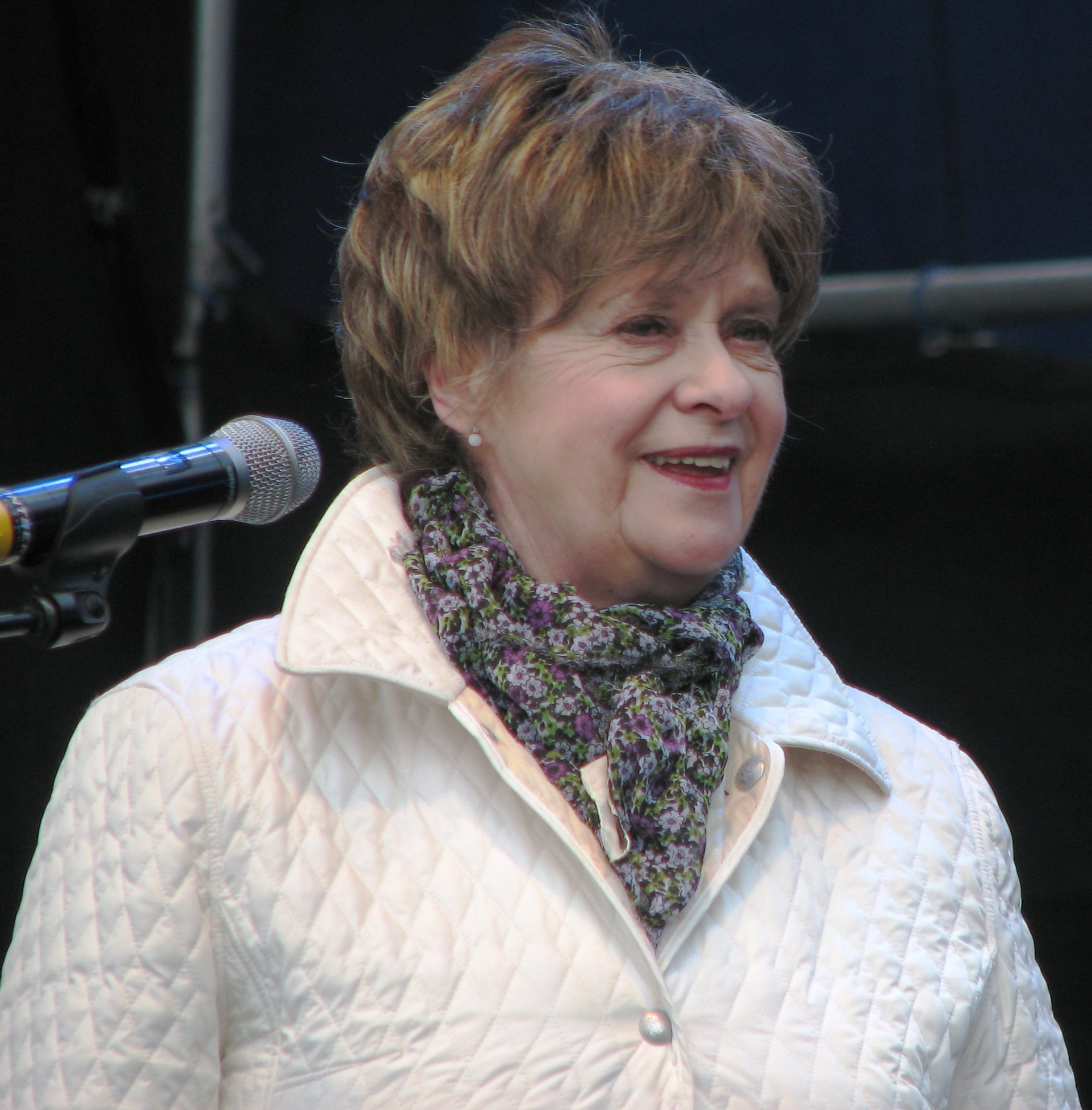 Leelo Tungal in Grand Slam, Tallinn